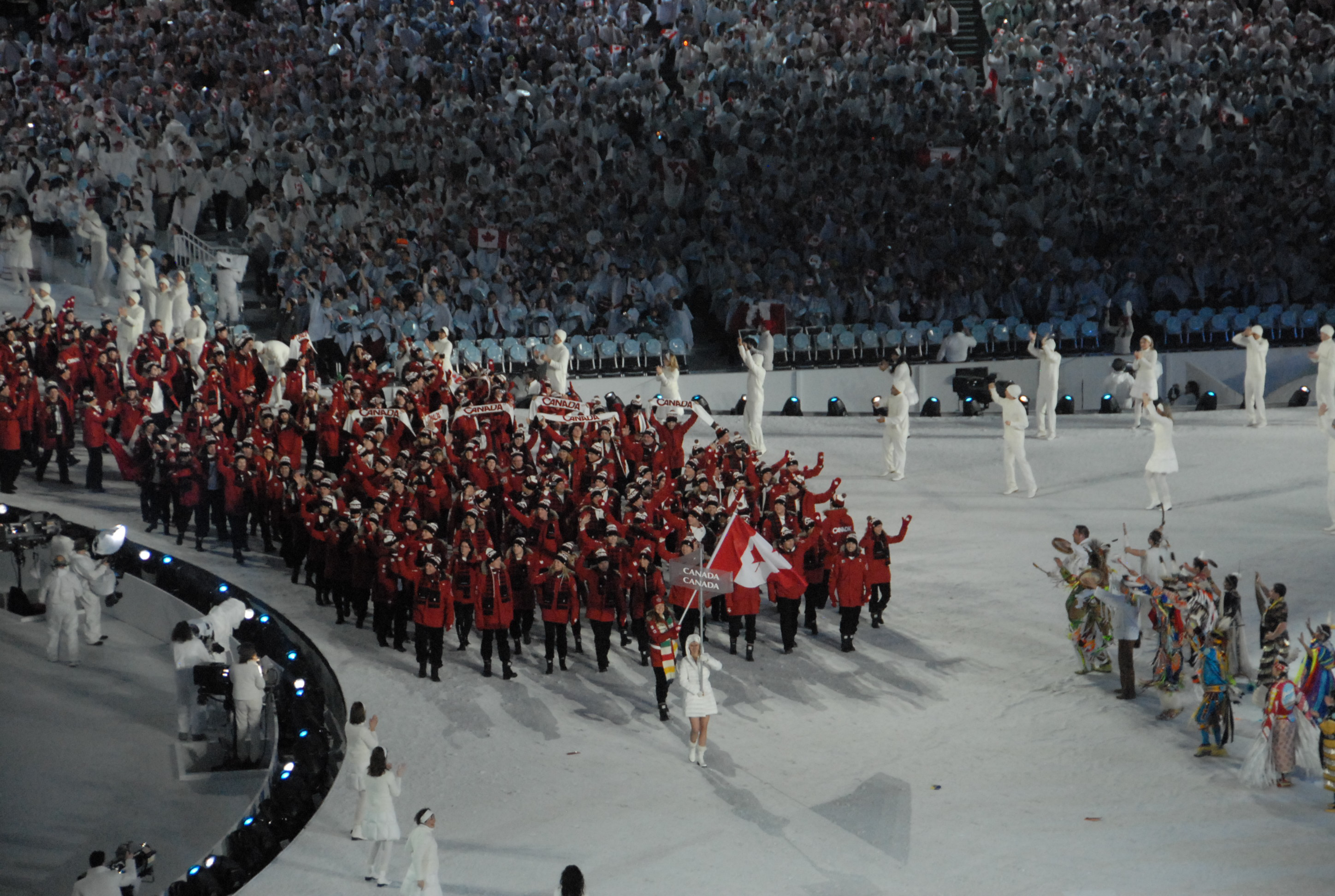 The Canadian athletes entering the stadium at the 2010 Winter Olympics